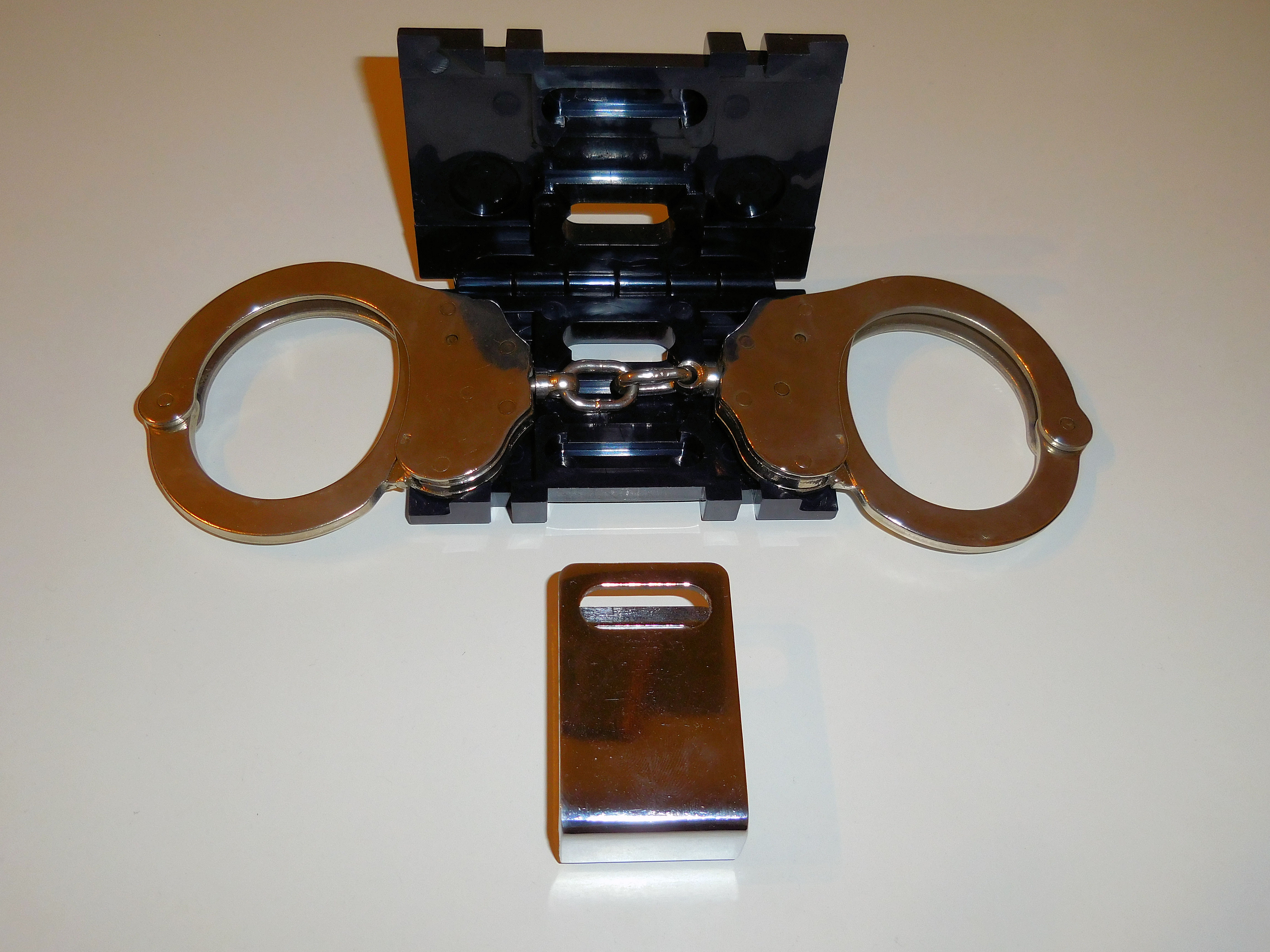 CTS Thompson model 7084 "blue box" handcuff cover